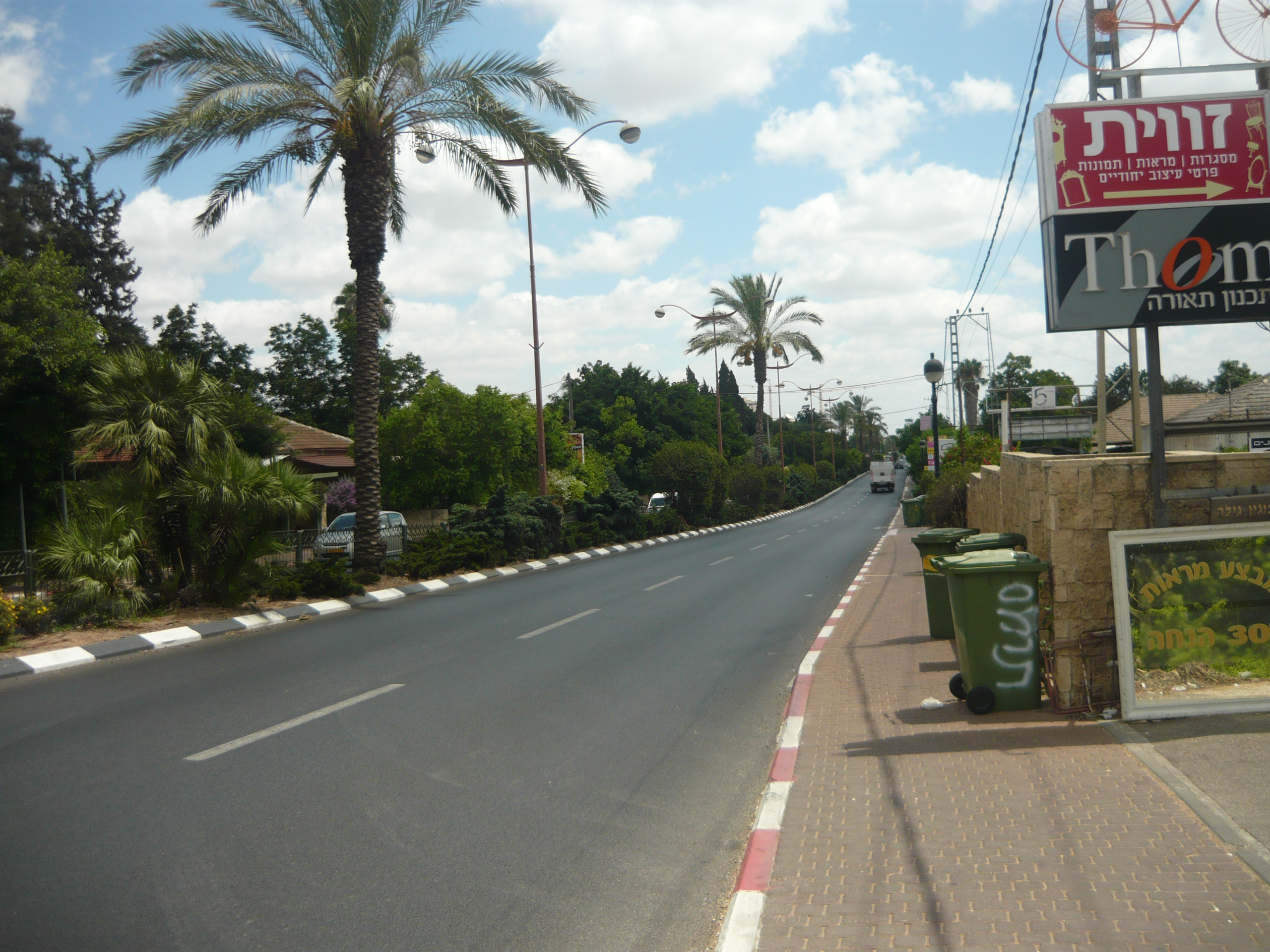 Kfar Malal Ein Hay Streetv הרחוב הראשי (רח' עין חי שהוא גם כביש 402) בכפר מל"ל